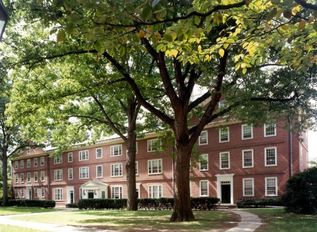 One of the freshman dormitories to be found in Harvard Yard, Cambridge, Massachusetts, on the campus of Harvard University.